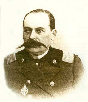 Ippolit Lytostanskiy (1835-1915)